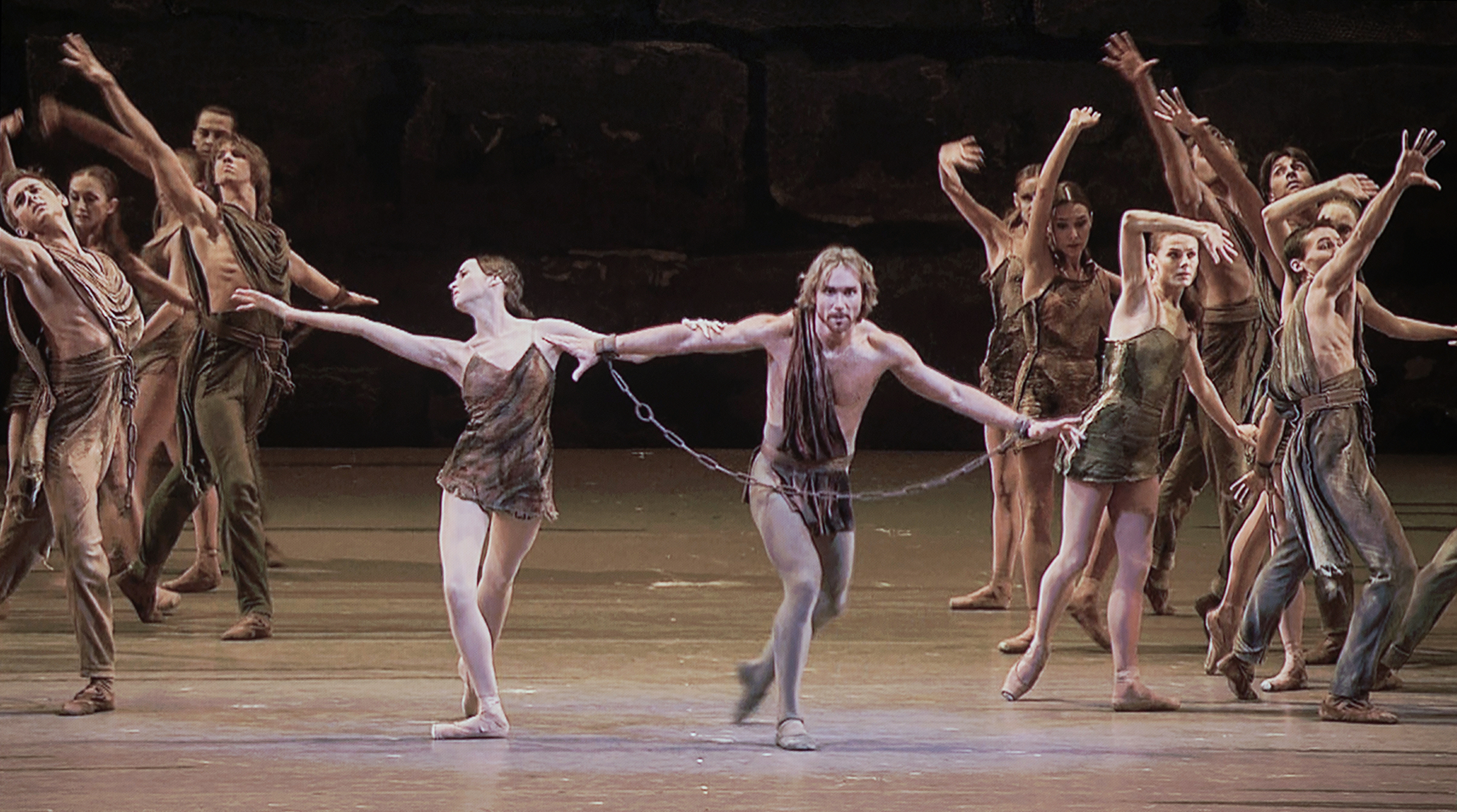 Spartacus at Bolshoi in Moskow October 2013